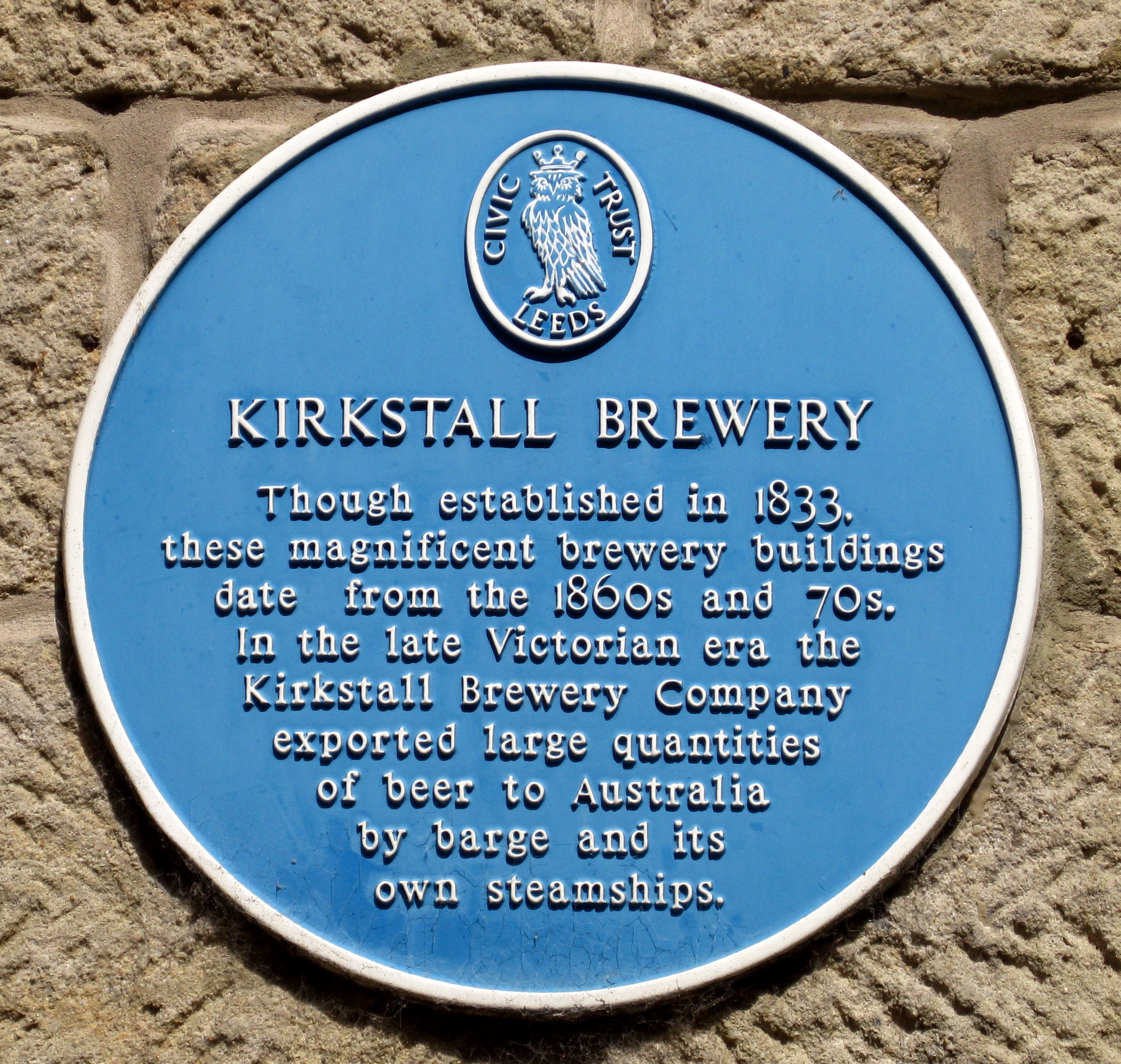 Blue plaque on the former Kirkstall Brewery, Broad Lane, Leeds LS5 3RX